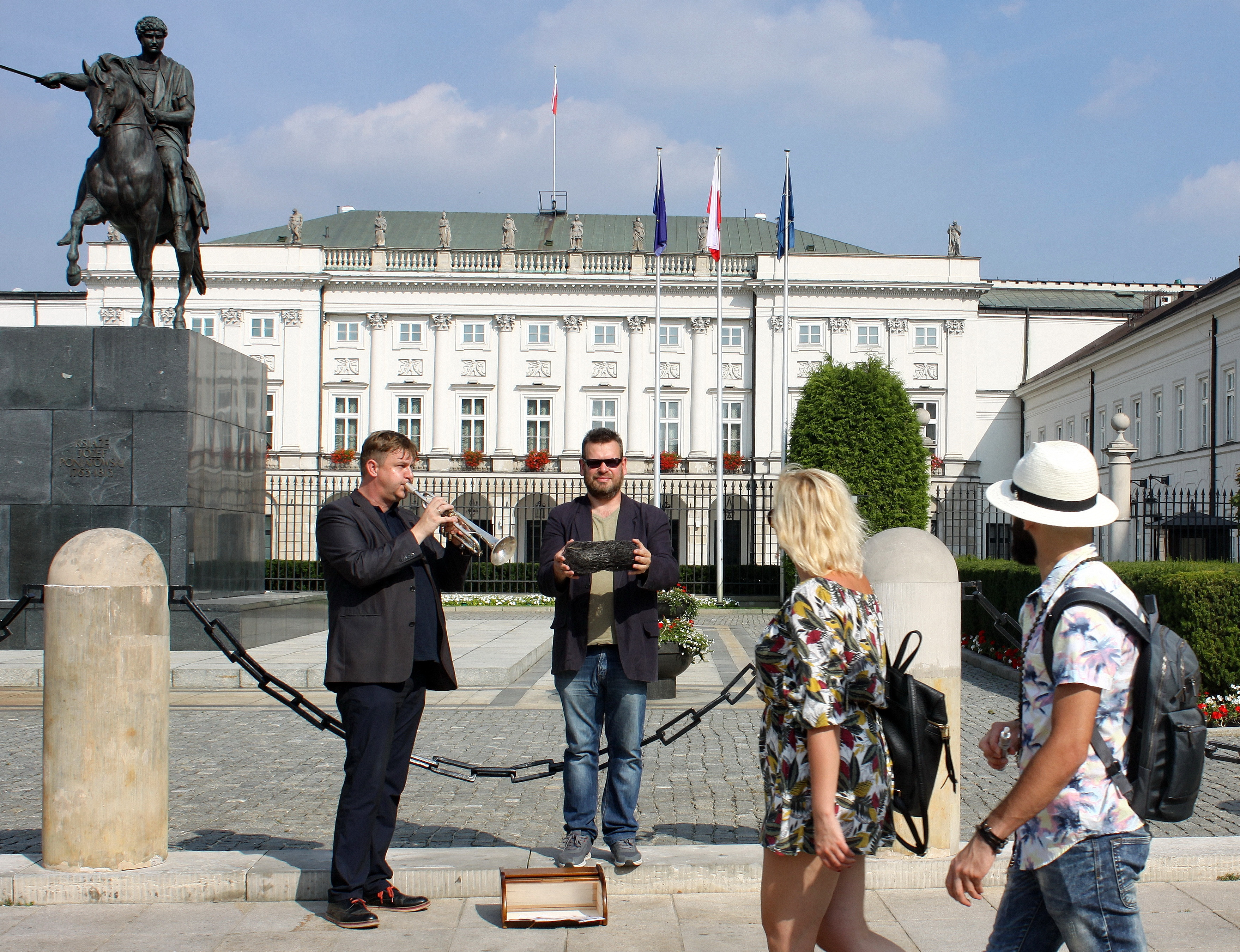 Performance of Teatr Tworzenia before the Presidential Palace in Warsaw (Abakanowicz//Pijarowski -The Art Dimensions - exhibition).